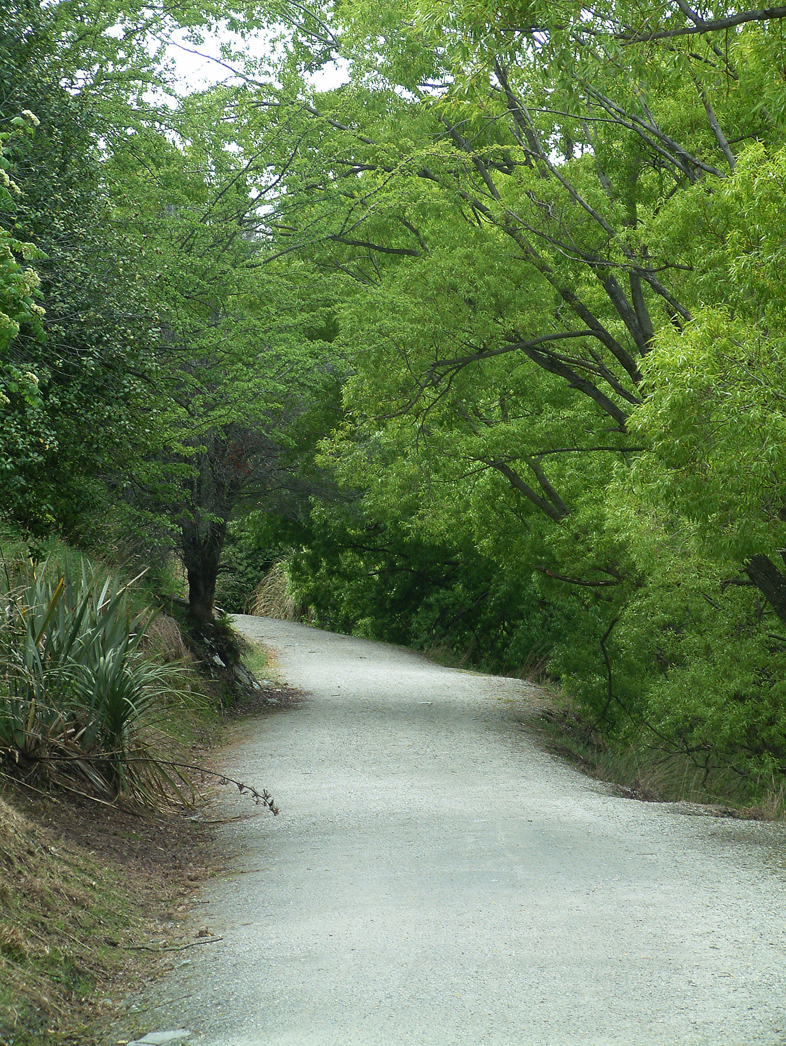 The Queenstown Trail. Start of track heading towards Frankton.